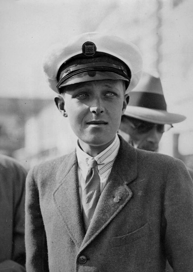 The Prince of Asturias, Alfonso de Borbón y Battenberg (Mountbatten in English)